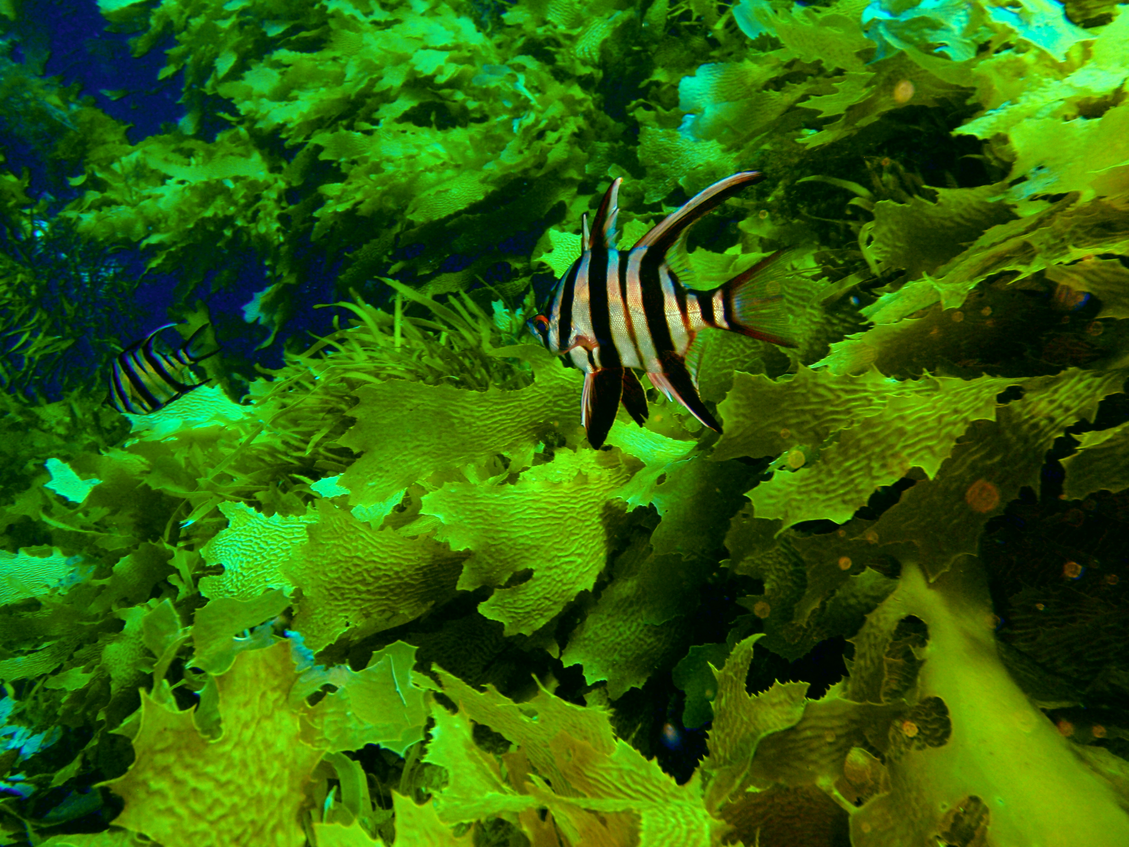 Old wife Enoplosus armatus at Seal cove, Breaksea Island, in King George Sound, Western Australia